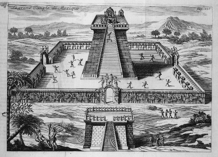 Tenochtitlan Temple of the Sun - Copper-plate engraving from Van Beecq